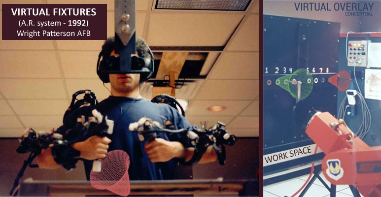 Virtual Fixtures system (first immersive Augmented Reality system. Built at U.S. Air Force, Armstrong Labs, 1992. Picture features Dr. Louis Rosenberg at WPAFB wearing a full upper-body exoskeleton, interacting freely in 3D with immersive overlaid virtual objects called 'fixtures')